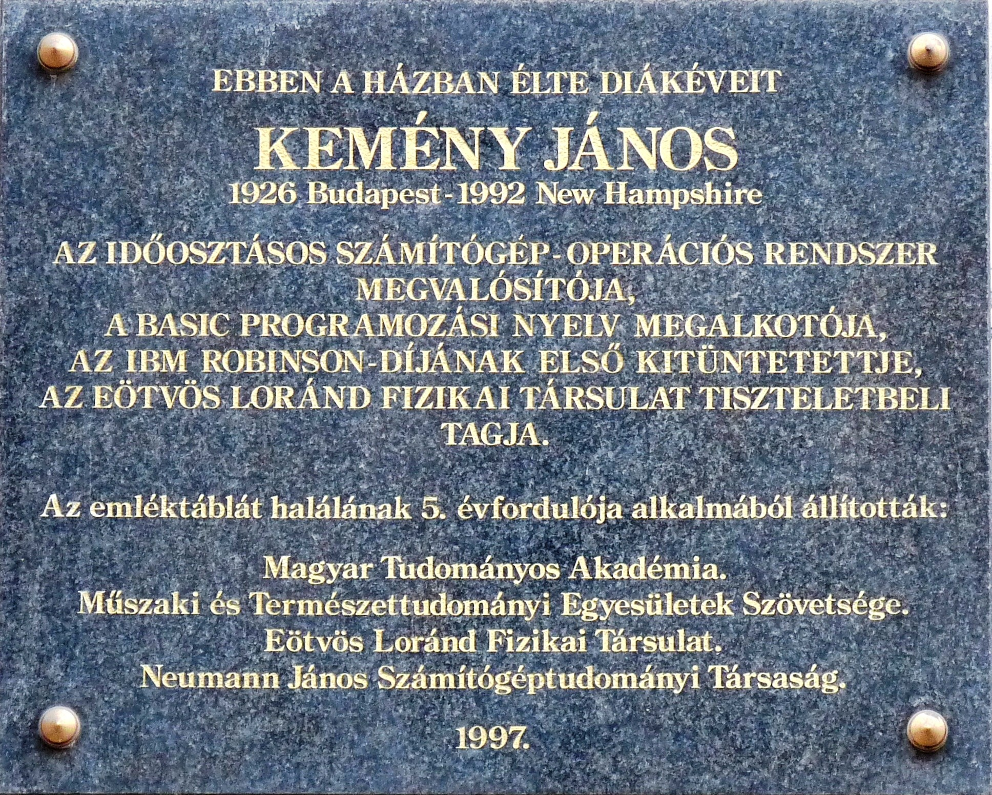 Commemorative plaque to Mr. John George Kemeny (1926-1992) Hungarian American mathematician, computer scientist. It is affixed to the wall of his former domicile. (Budapest, District V, Bajcsy-Zsilinszky Avenue Nr 38).